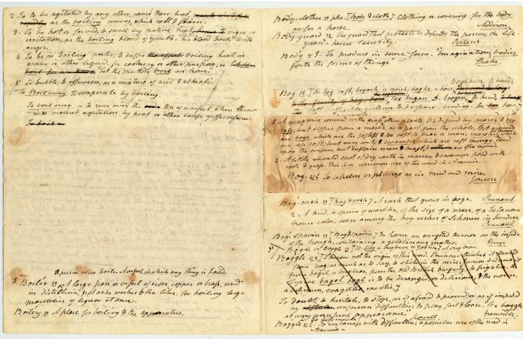 Handwritten drafts of dictionary entries written by Noah Webster. From the Webster Family Papers, Yale University Manuscripts & Archives Digital Images Database, Yale University, New Haven, Connnecticut.